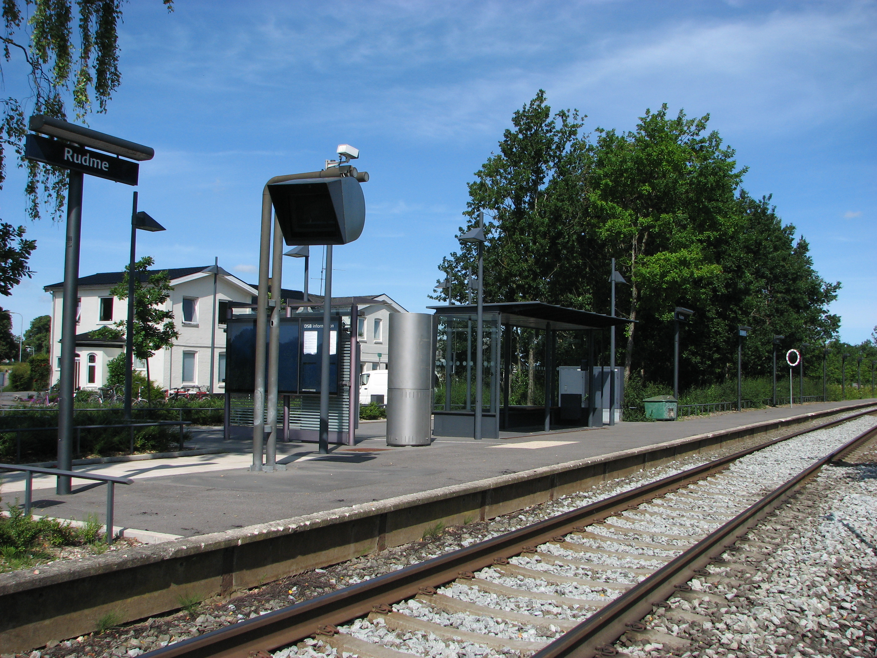 The railroad station in Rudme, Funen, Denmark